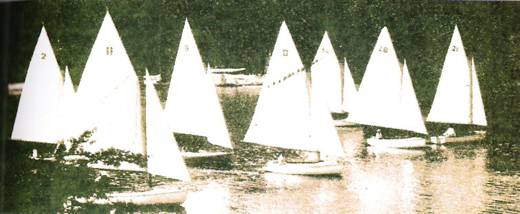 Olympic Monotype regatta at Meulan France